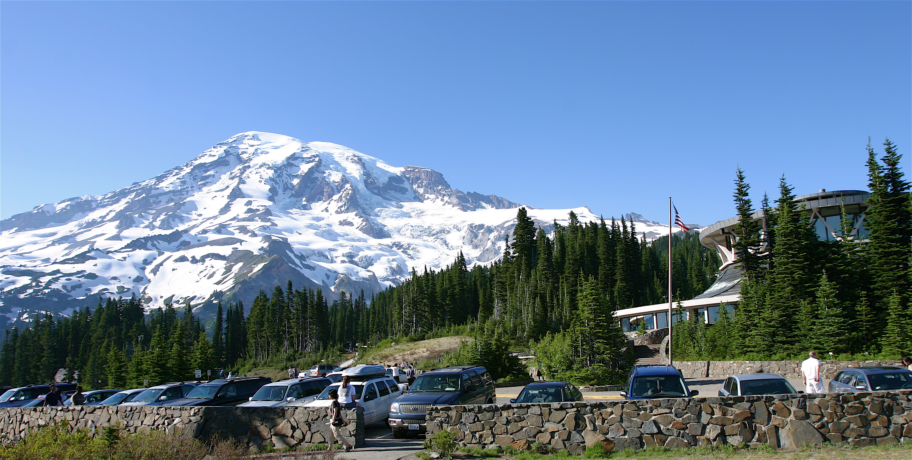 Mount Rainier and Paradise Visitors Center.